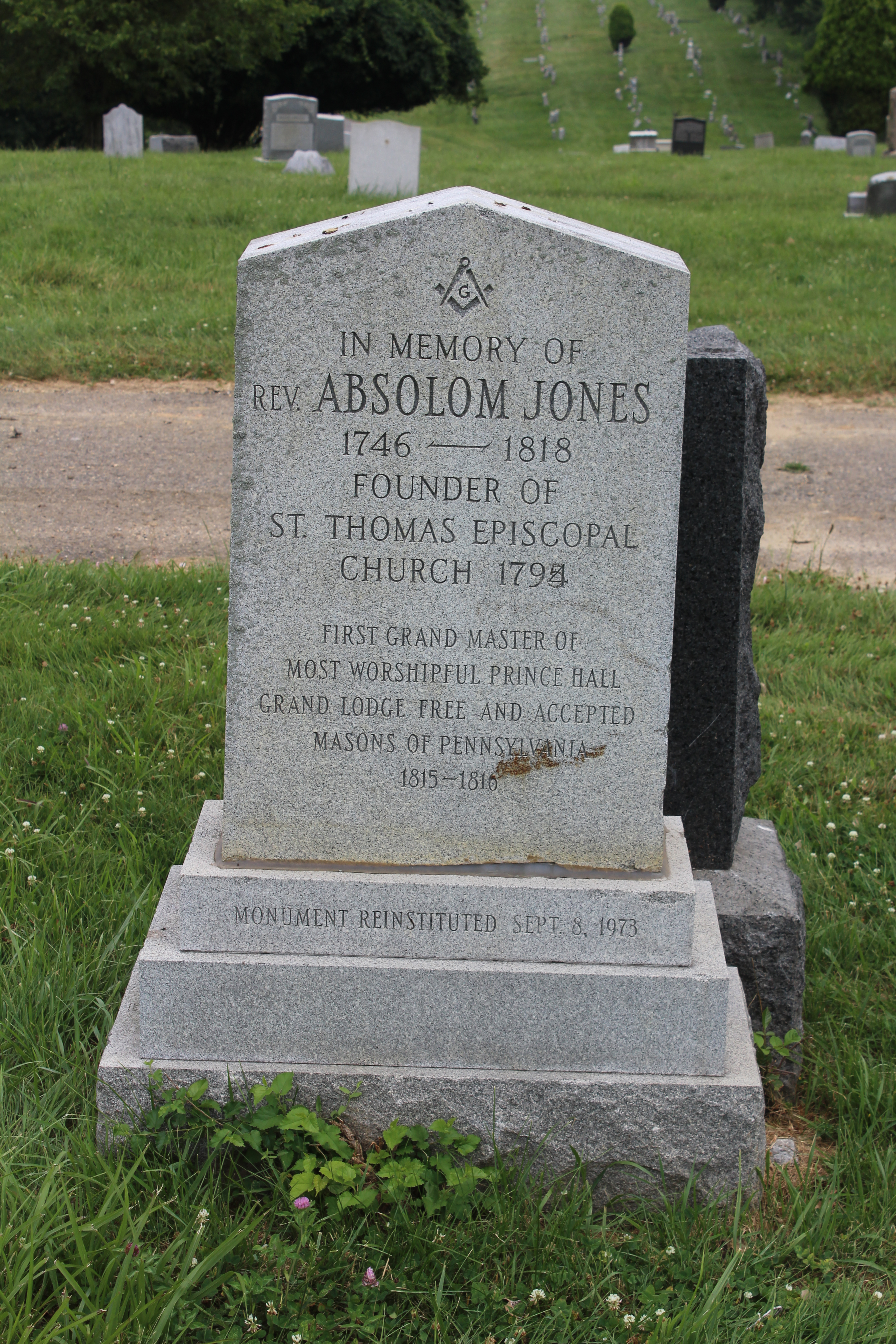 Absalom Jones Cenotaph in Eden Cemetery, Collingdale, Pennsylvania. Photo taken July 2019.